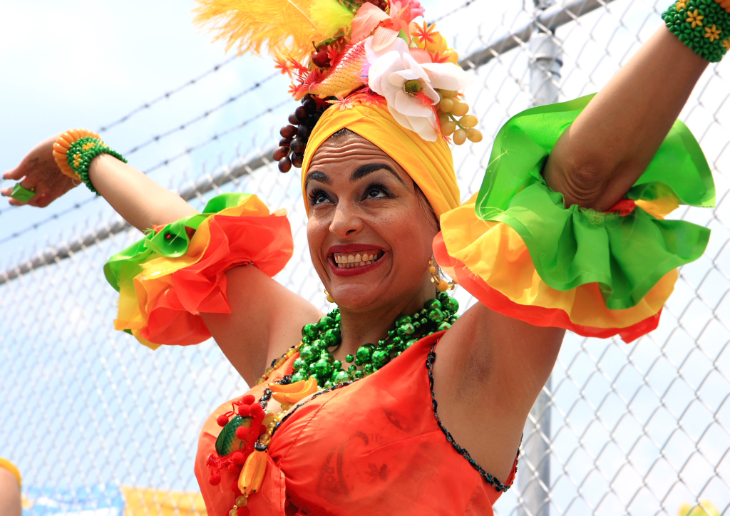 Coney Island Mermaid Parade 2008.